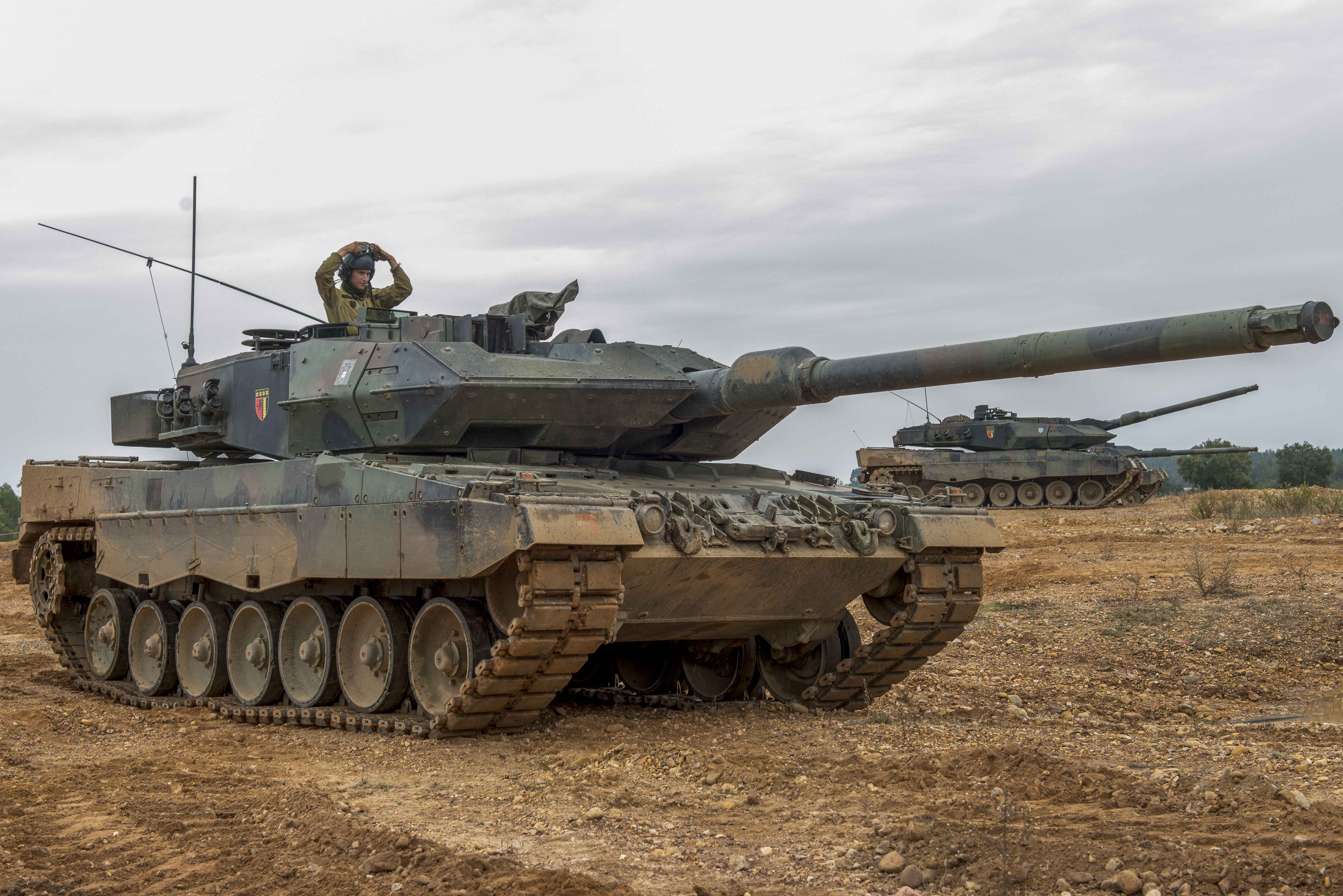 Portuguese tanks of the multinational brigade conduct maneuvers in Santa Margarida, Portugal, during JOINTEX 15 as part of NATO’s exercise TRIDENT JUNCTURE 15 on October 21, 2015 Photo: Sgt Sébastien Fréchette, Public Affairs 5GBMC VL06-2015-374-19